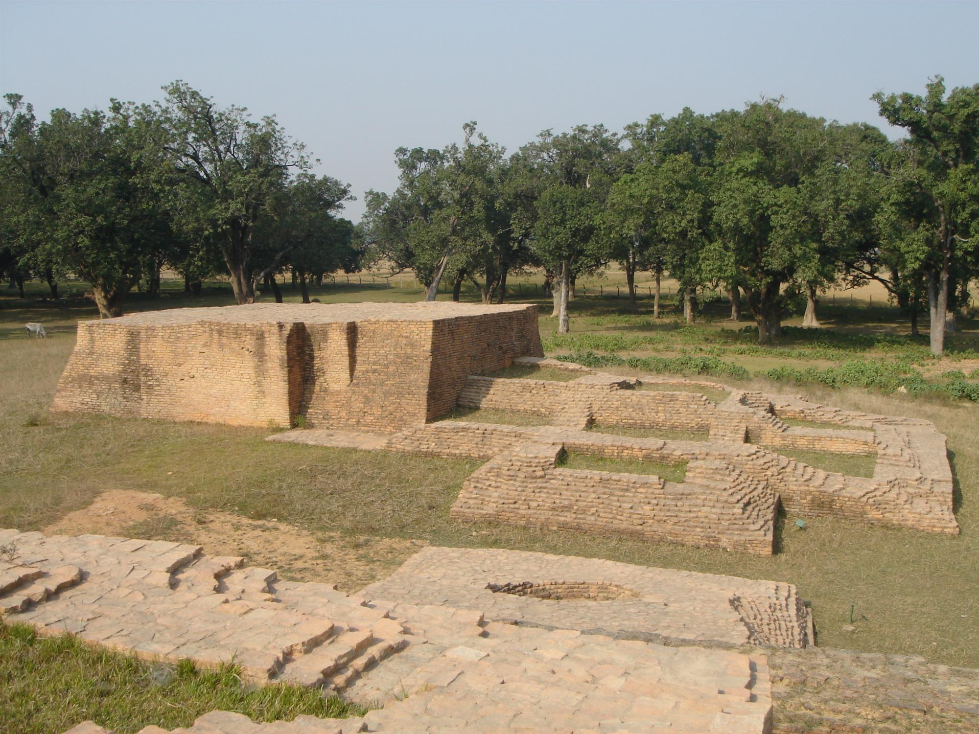 Nigrodharama Monastery (where Buddha used to stay), close to Kapilavastu (Tilaurakot) and Lumbini, in Nepal.